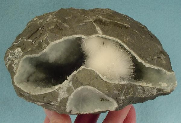 Natrolite Locality: Jalgaon District, Maharashtra, India (Locality at ) Size: 15.2 x 8.7 x 8.5 cm. An AESTHETIC and DRAMATIC LARGE CABINET geode from Jalgaon, India. A striking, elongate, cavernous, quartz-lined vug is highlighted by two, stunning, intergrown balls of glassy, snow-white natrolite needles. The smaller "dimple" vug is a really neat accent to this outstanding zeolite specimen.